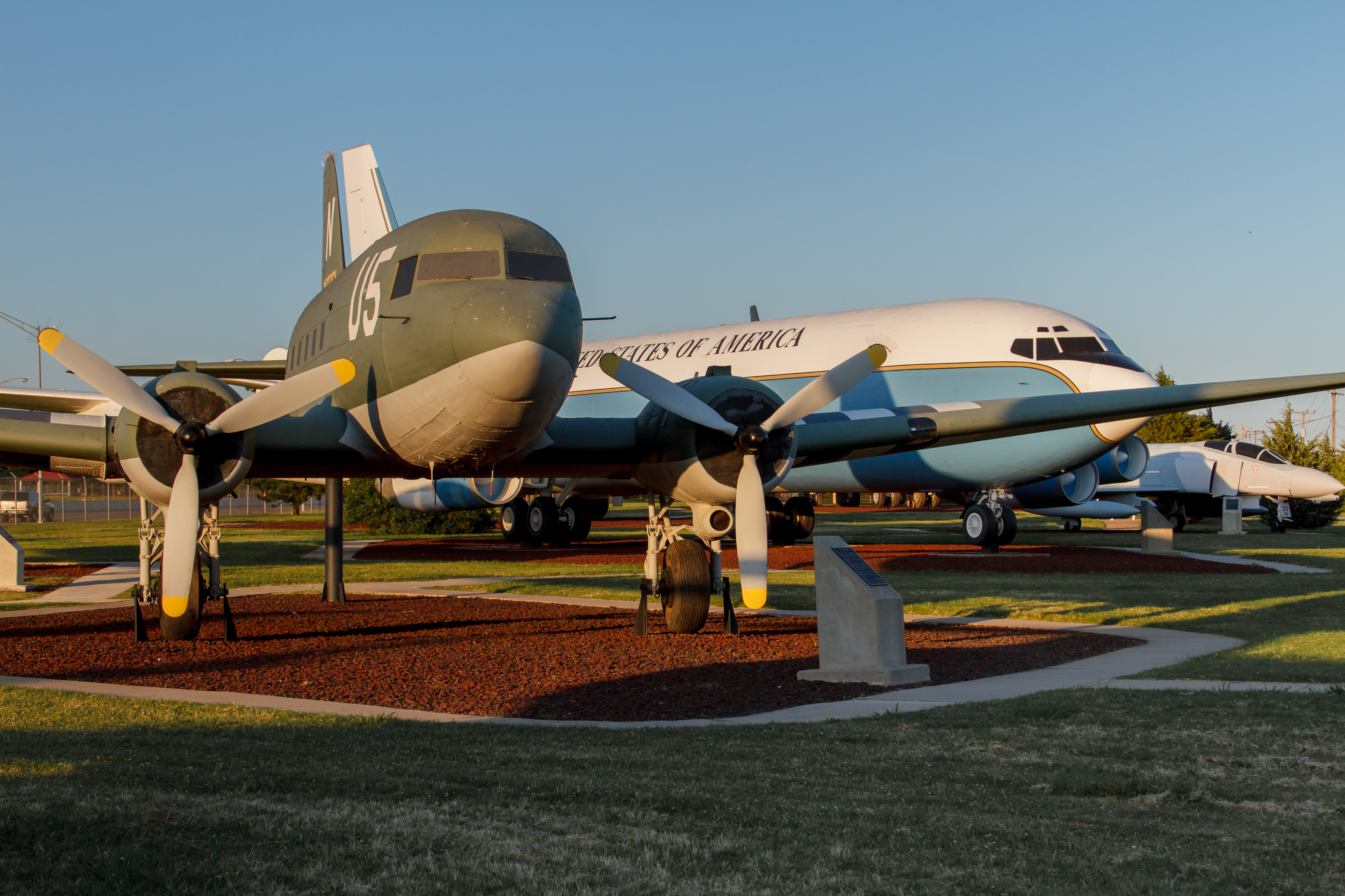 A C-47 Skytrain on display at Tinker Air Force Base, Oklahoma.